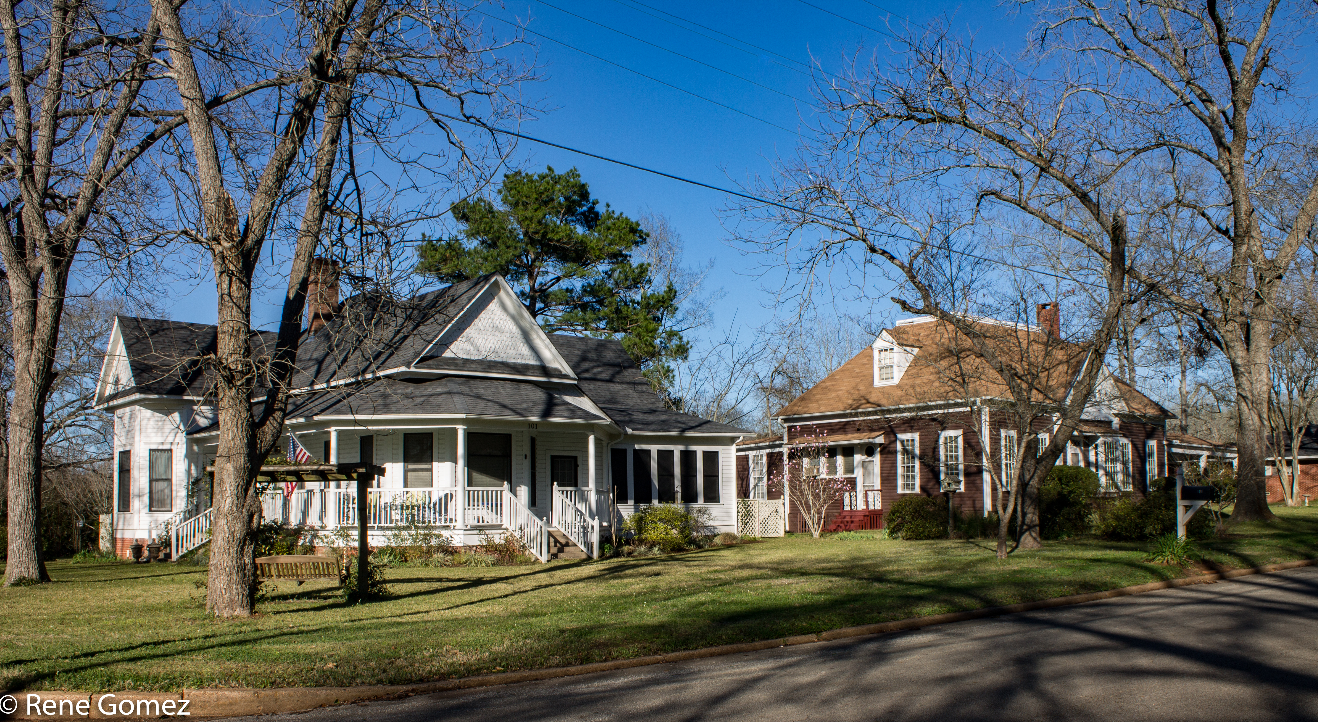 San Augustine Residential District in San Augustine, Texas